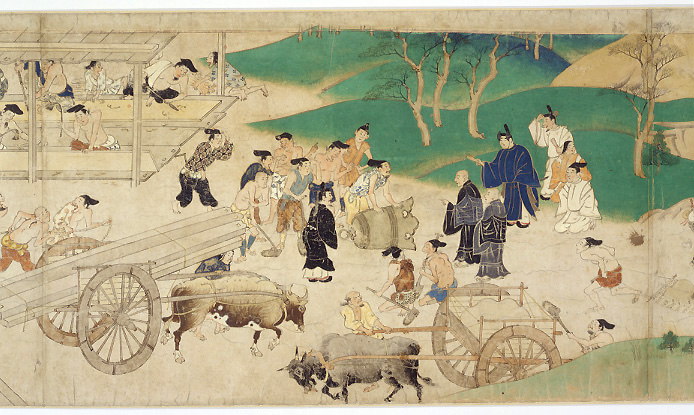 Building of the temple.